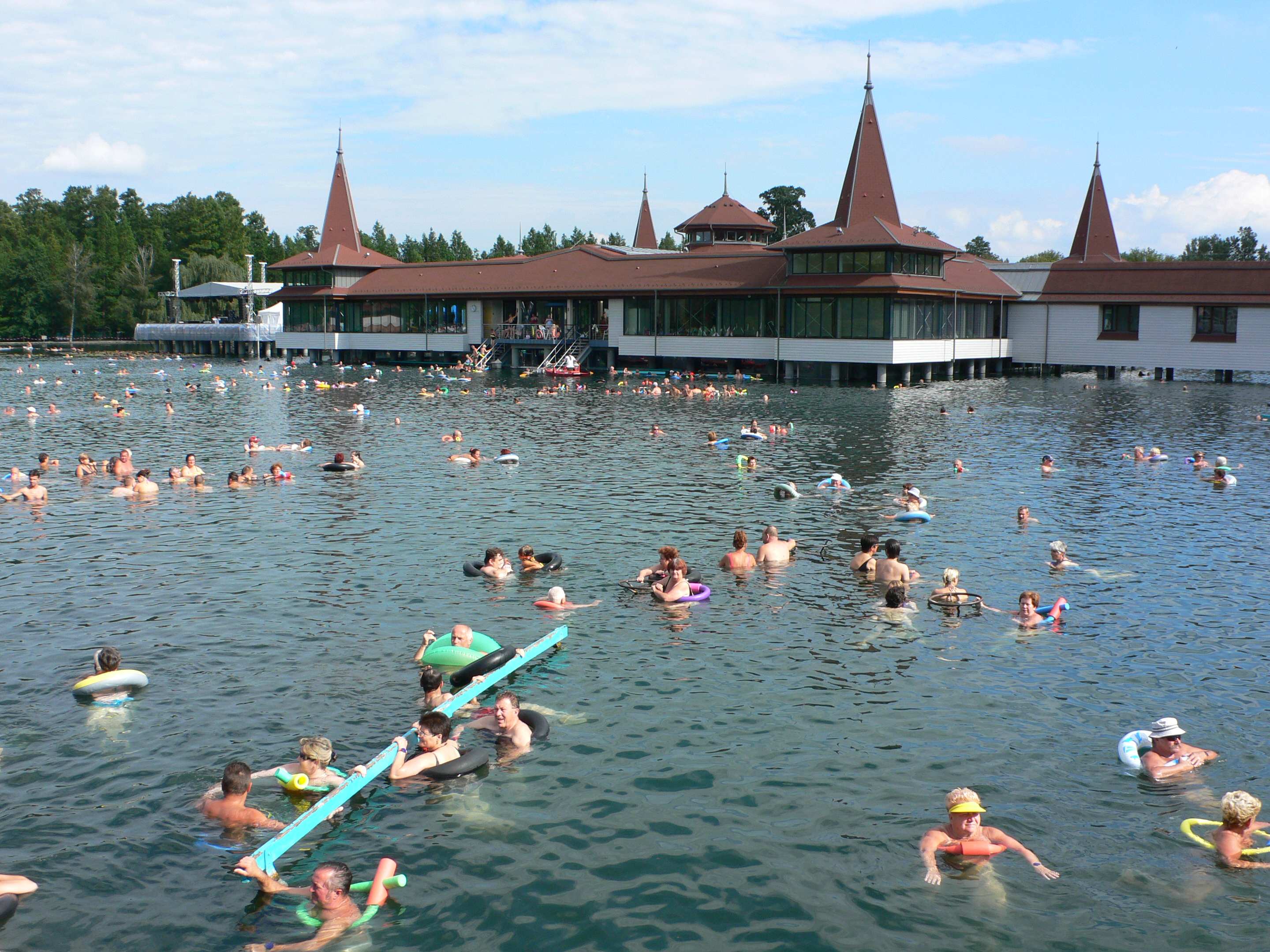 Thermal Lake at Hévíz, Hungary Photos from our holiday at Lake Balaton, Hungary in August 2010